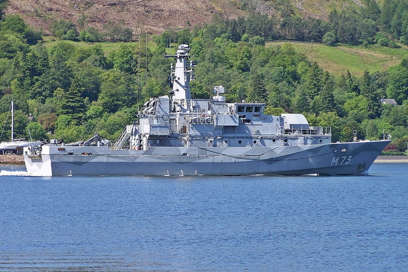 Swedish Navy Minesweeper HMS Koster to Faslane